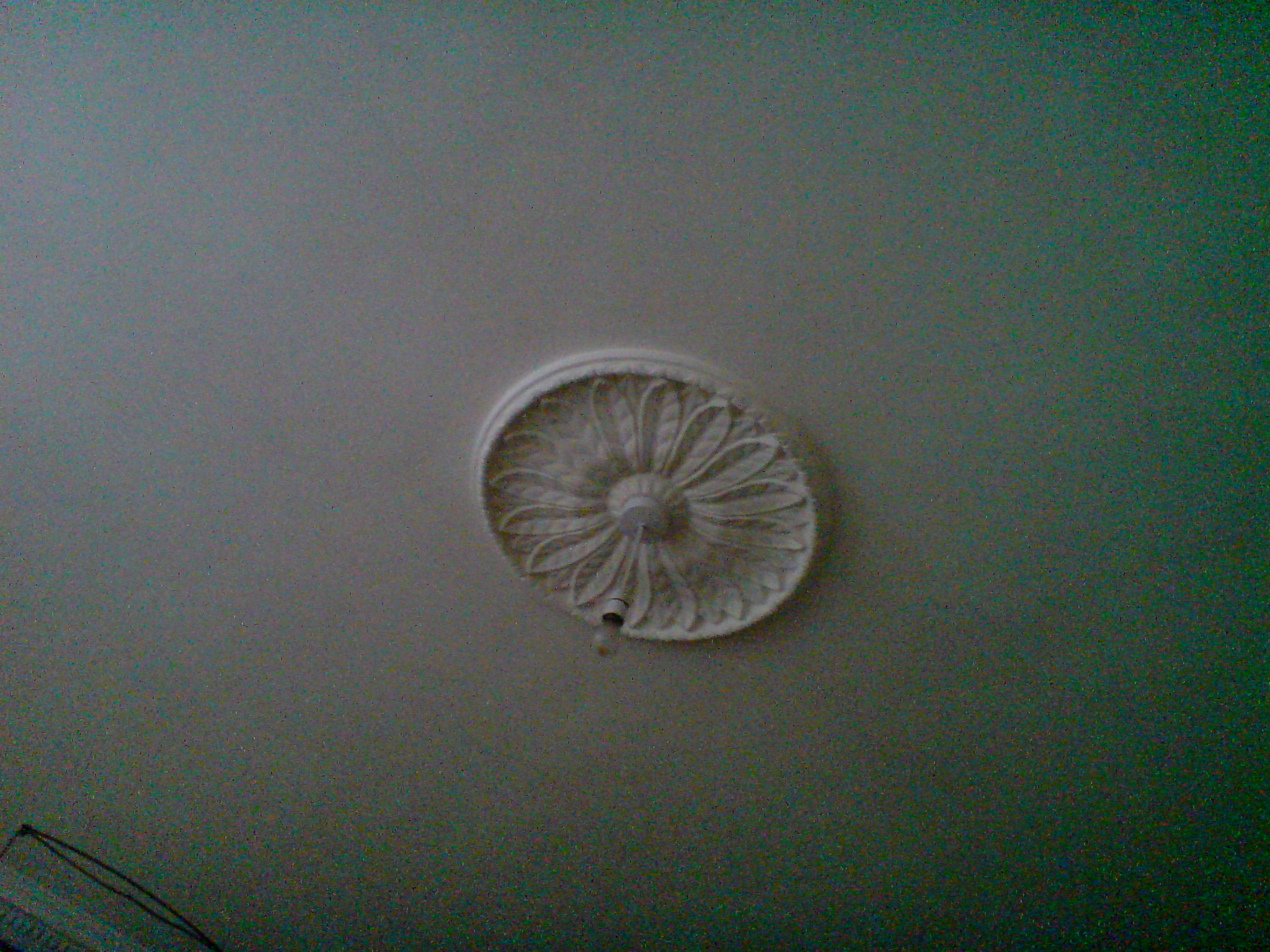 in a plain ceiling.